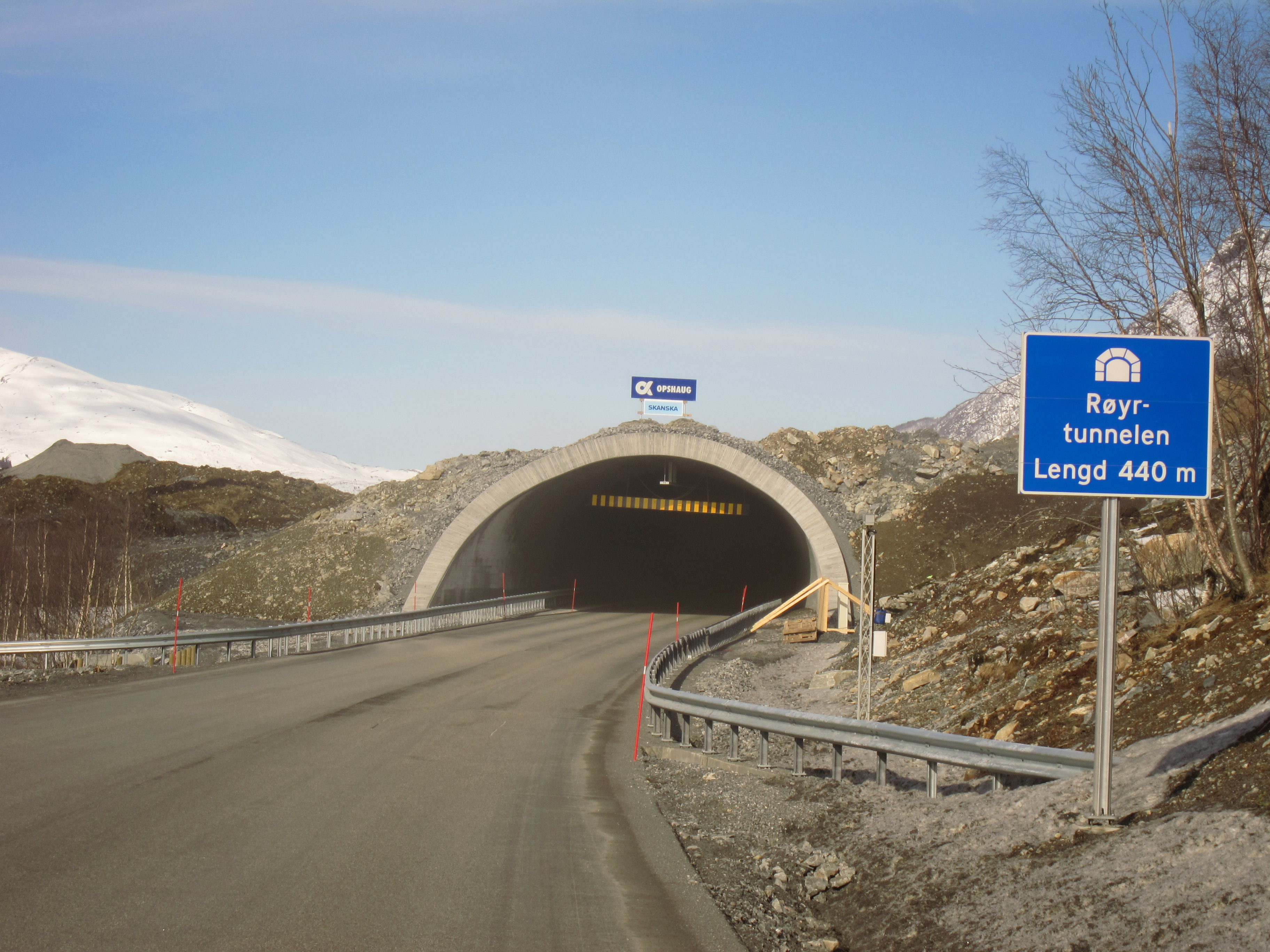 Røyrtunnelen (Røyr tunnel) in Stranda valley road 60